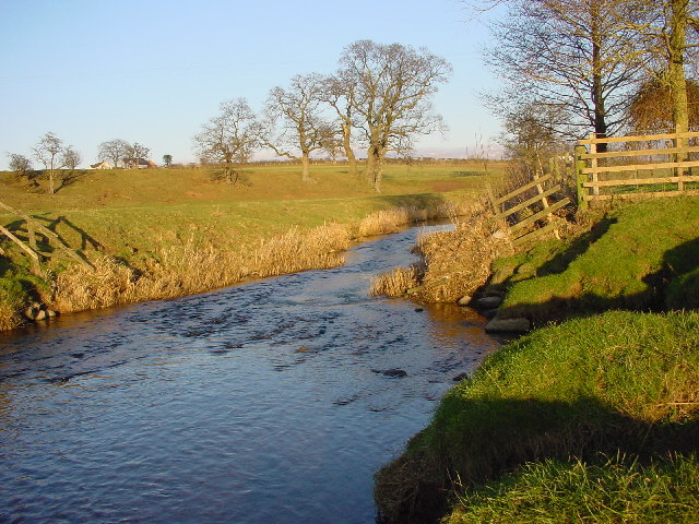 River Leith. Temporary notices advise not to use because of sewage pollution. Taken next to the private-keepout house of Braemar.